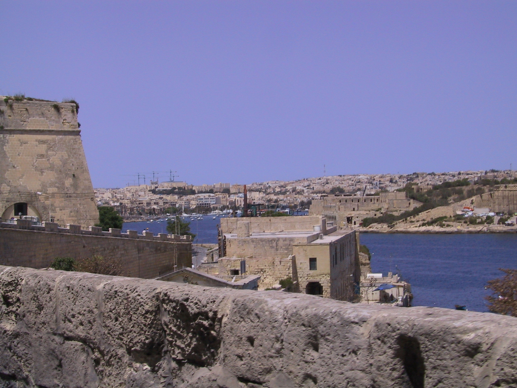 View of Manoel Island from Valletta